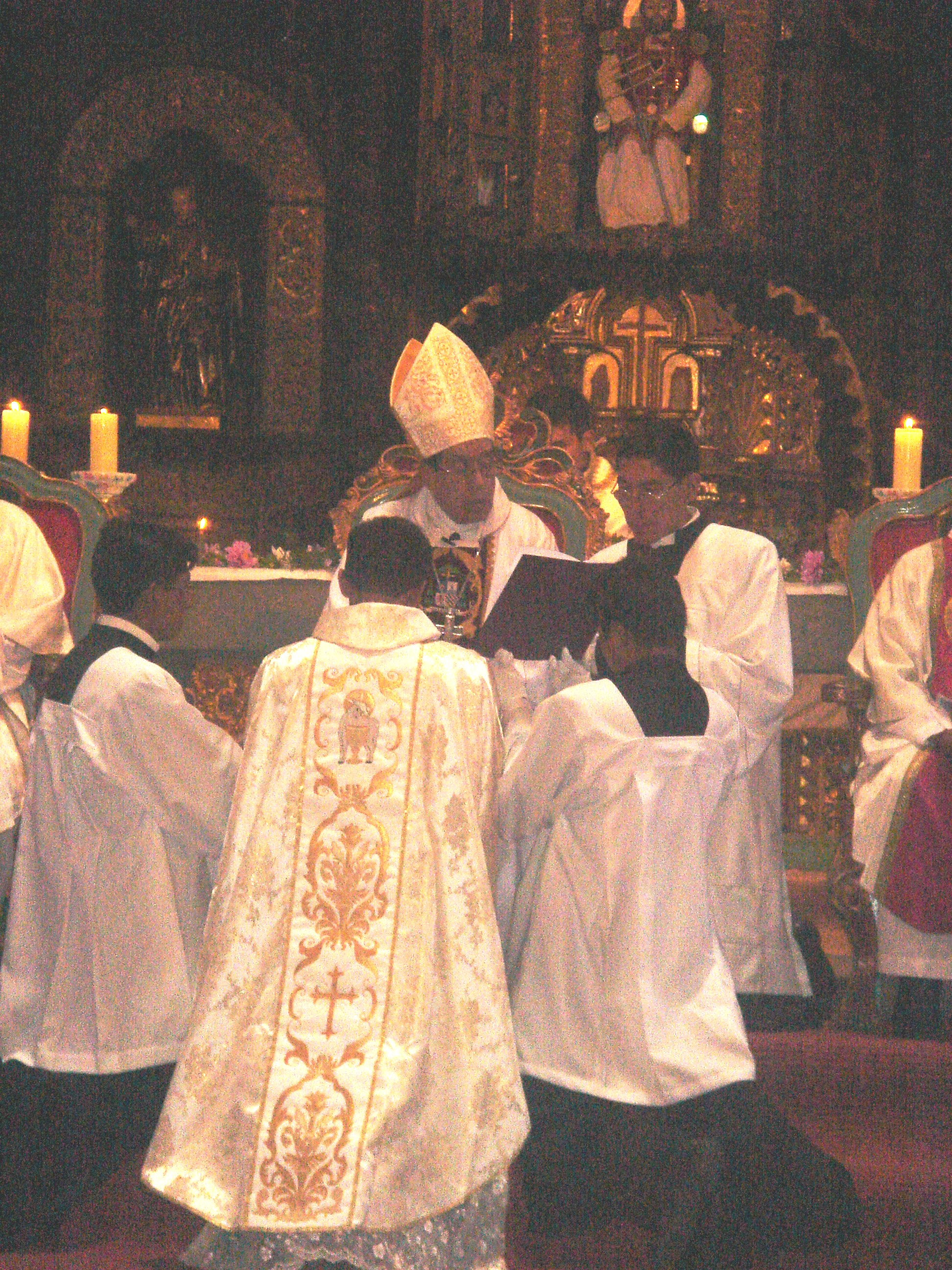 Roman Catholic Ordination. Cathidral of Juli, Puno Region (Peru).